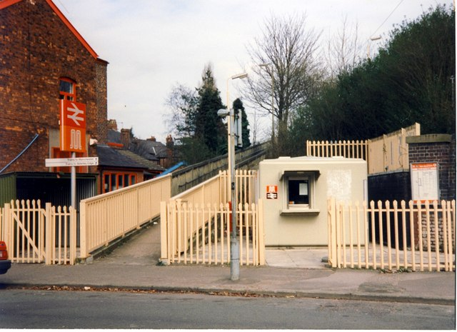 Mauldeth Road station entrance A very long access ramp connected the minimalist station building with the platforms in 1989.